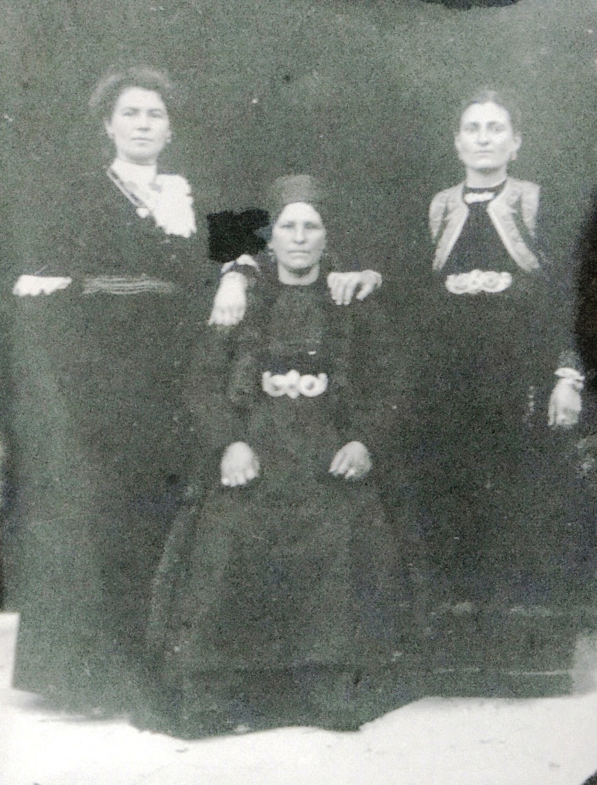 Wallachia costume from the village of Furka. 1912 (Damaged glass plate) This media file is produced by Wikipedian in Residence in Category:Wikipedian in Residence at DARM in 2016.